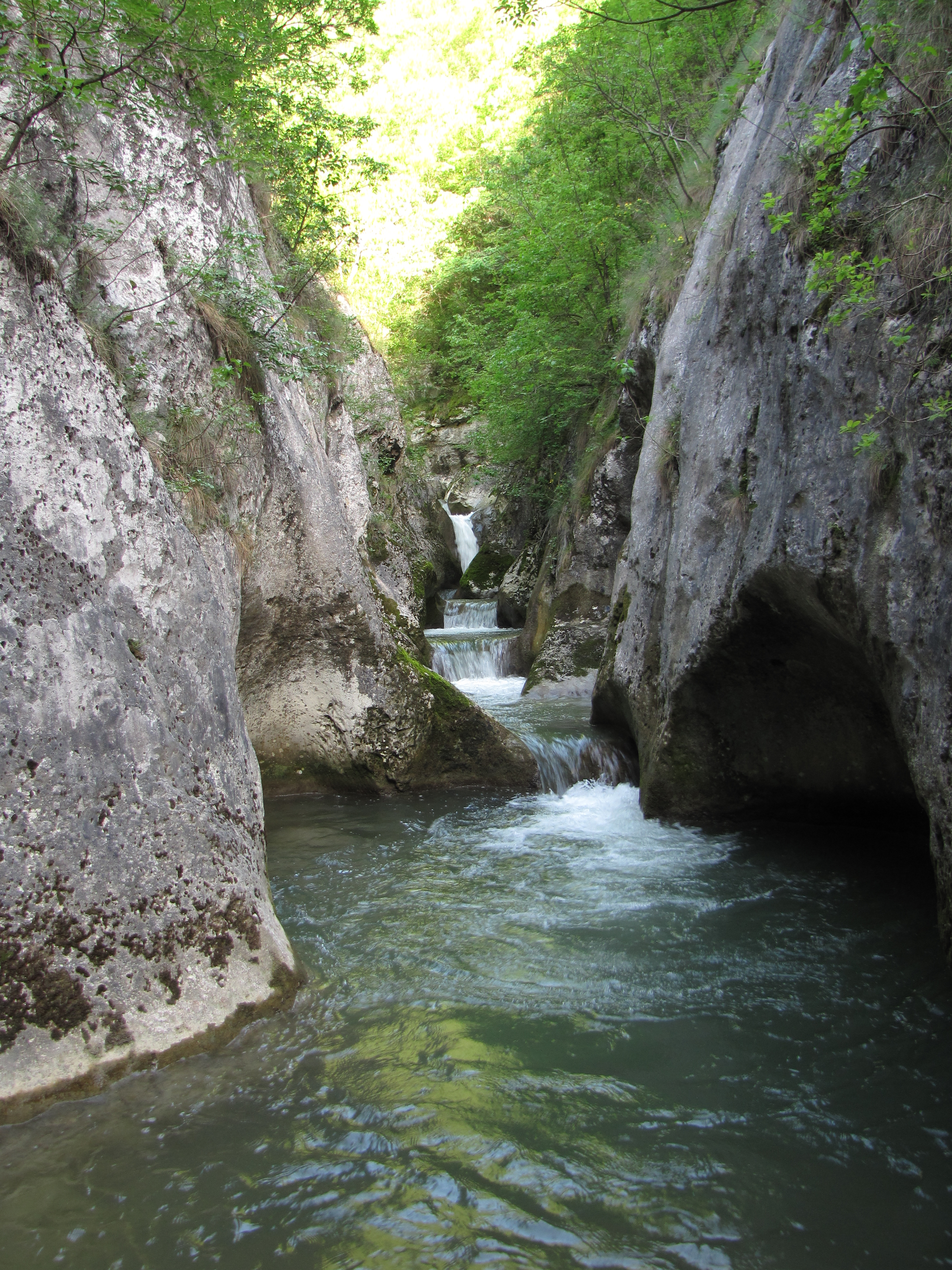 George of Dobrodolska river